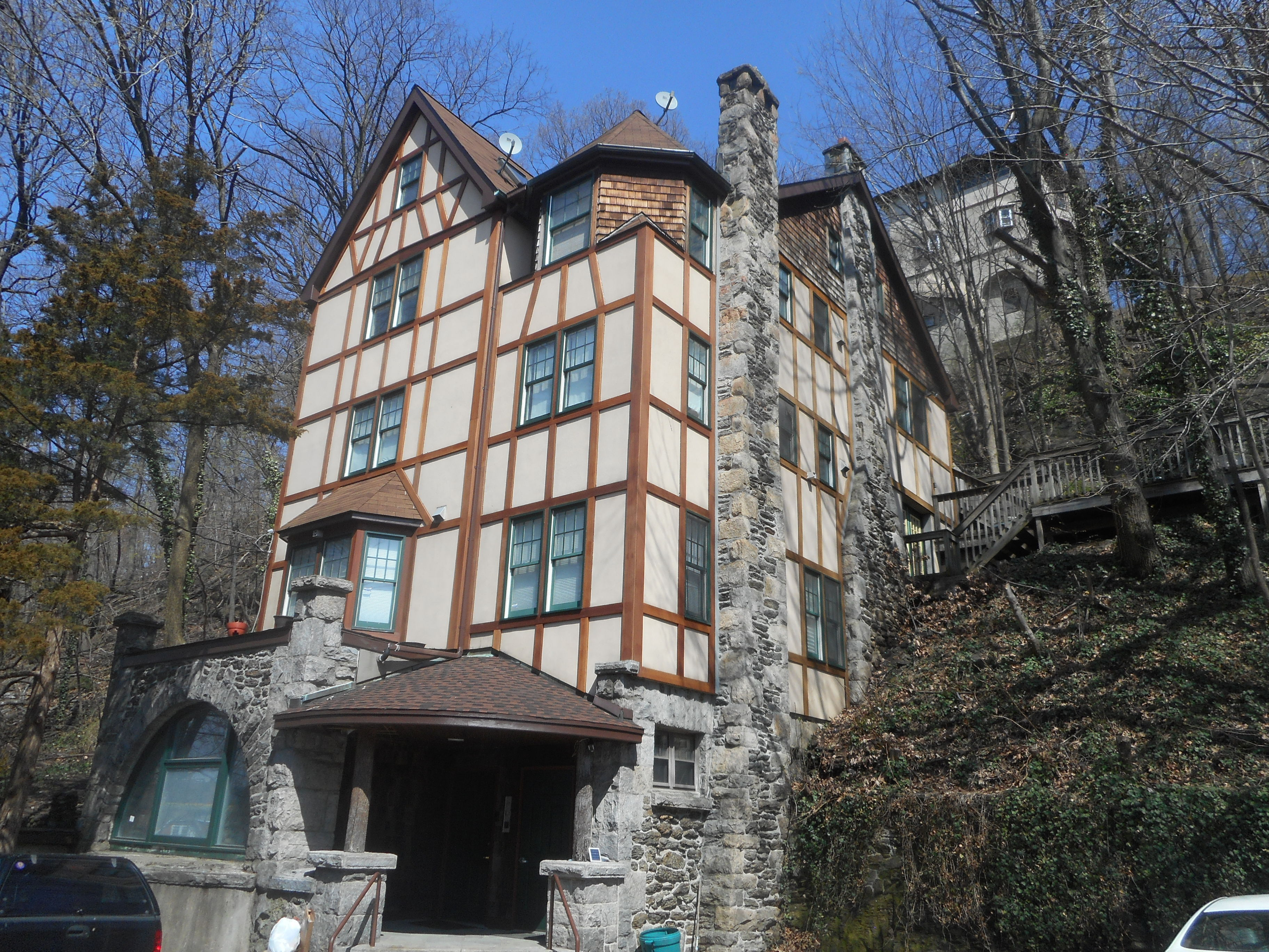 The former Lower Station of the Park Hill Incline Railway on Undercliff Street in the Park Hill section of Southwest Yonkers, New York. The station previously connected to the former Park Hill Railroad Station on the Getty Square Branch of the Putnam Division of the New York Central Railroad. The Park Hill Incline existed from 1894 to 1937. New York Central abandoned the Getty Square Branch in 1943. Today this station is a private residence along a one way street halfway up a mountain.